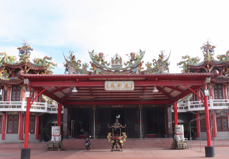 The center building of the country.